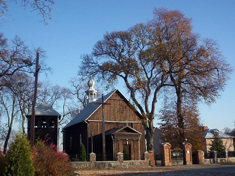 Church in Stara Rawa, eastern part of Łódź Voivodship, Poland.